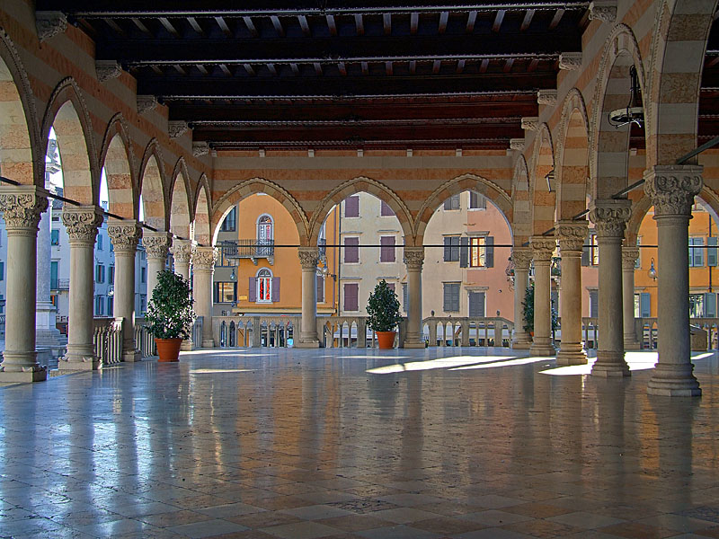 A colourful view through the arcades of the most beautiful loggia in Udine